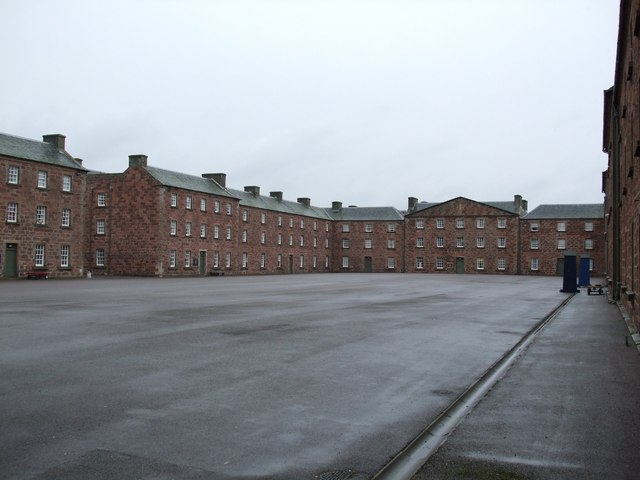 Parade Ground , Fort George The sheer scale of the Fort may be appreciated by this diagonal view across the parade ground.There is a further grassed area within the fort of similar size used on more ceremonial occasions. Designed to accommodate 2 battalions, some 1,800 men, currently there is still a detachment from the Black Watch in residence.